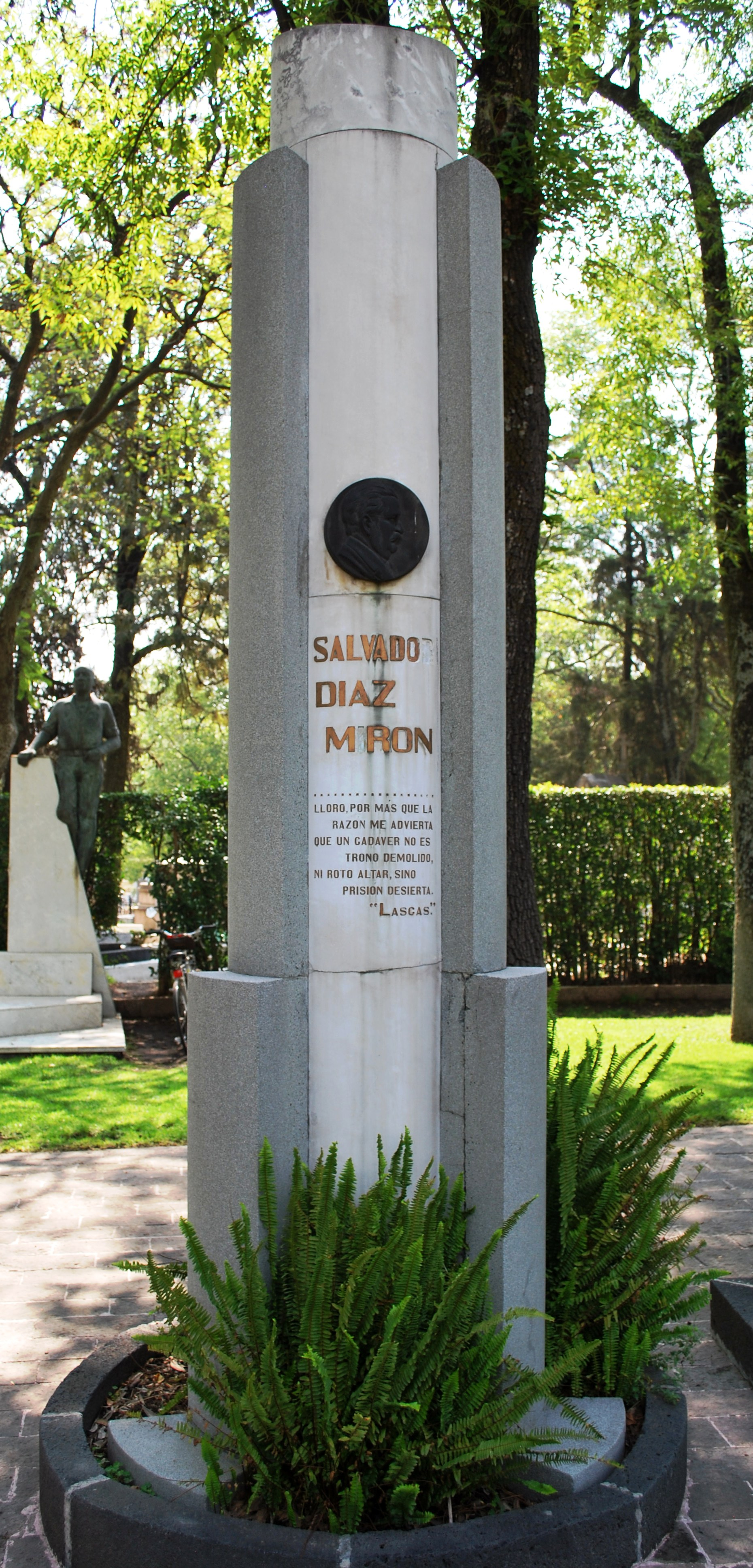 Tomb of Salvado Diaz Miron in the Panteon Civil de Dolores cemetery in Mexico City